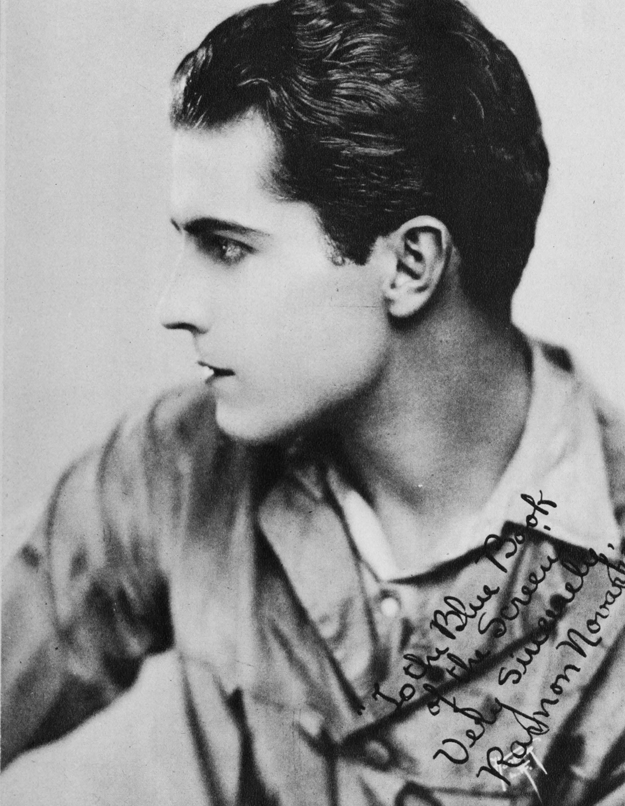 Published 1923. Photographer credited as Hoover.